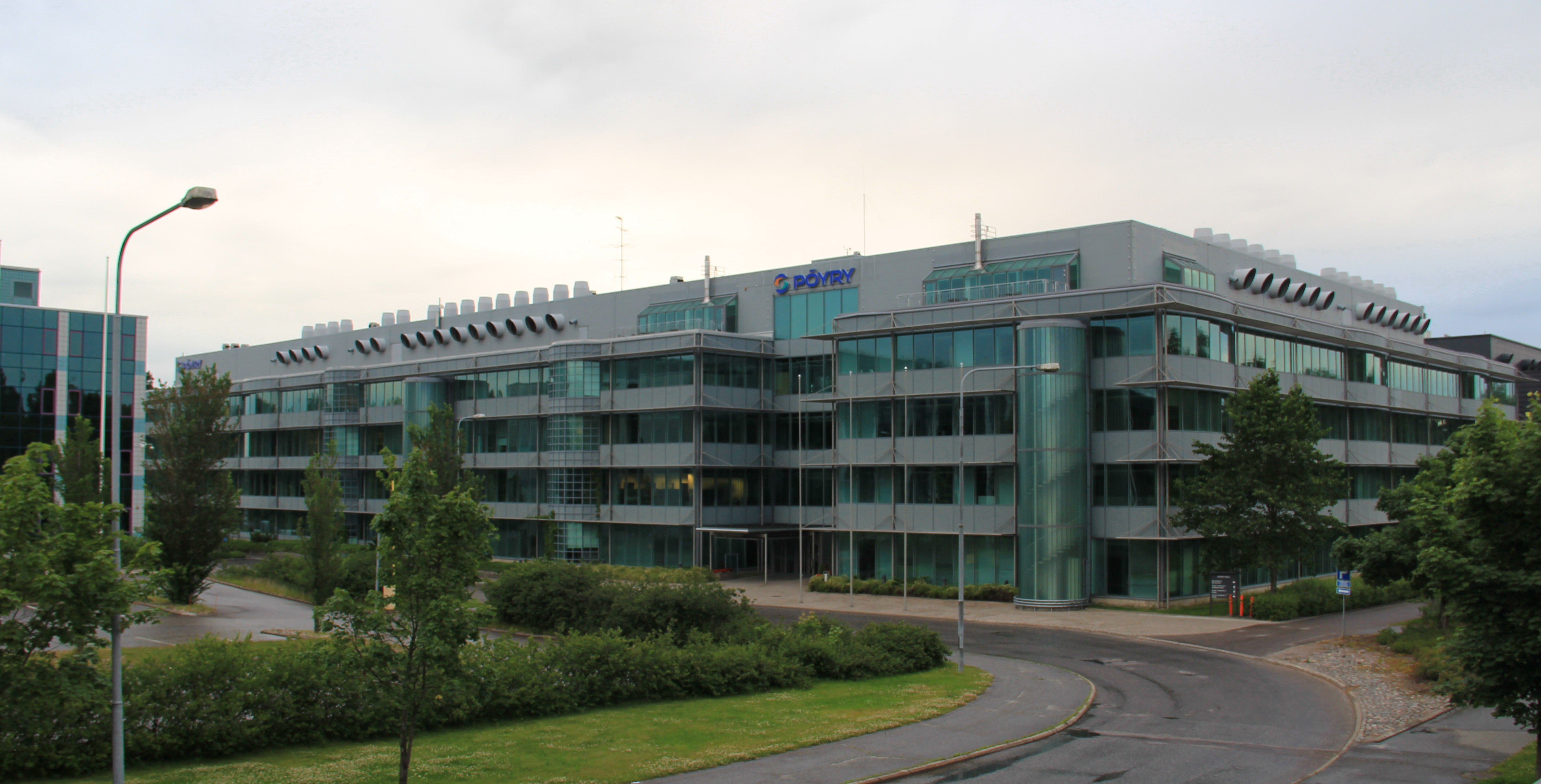 Pöyry (Company) Headquarters, Martinlaakso, Vantaa, Finland. Architect Risto Marila at Arkkitehtitoimisto Jan Söderlund & Co ltd. Completed 1991, extension 1999.